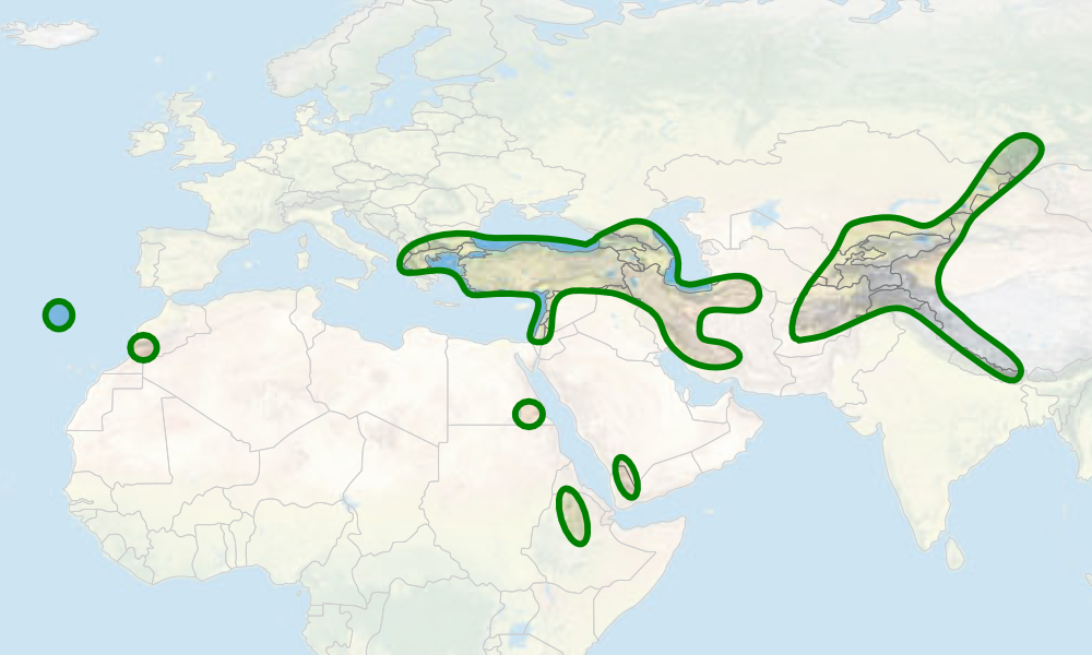 Range map of the genus Cicer using data from van der Maesen et al (2007): Taxonomy of the genus Cicer revisited.